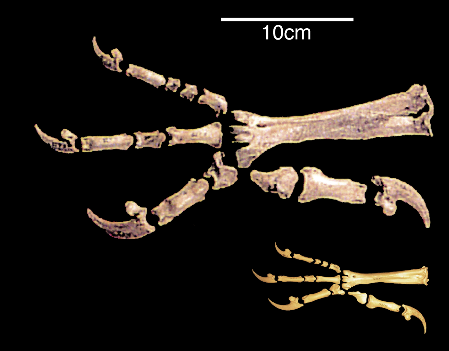 Comparison of the huge claws of Harpagornis moorei with those of its close relative the Hieraaetus morphnoides, the “little” eagle. The massive claws of H. moorei could pierce and crush bone up to 6 mm thick under 50 mm of skin and flesh.